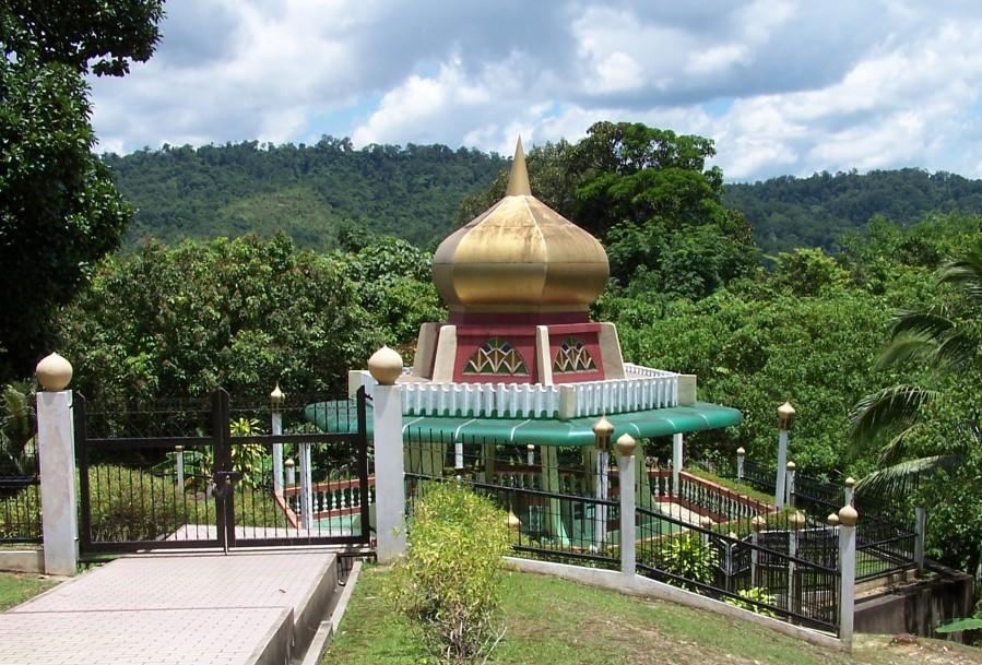 The tomb of Sharif Ali, the third sultan of Brunei. It is located near Kota Batu.